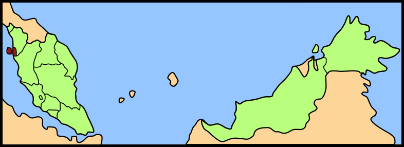 The Malaysian state of Penang